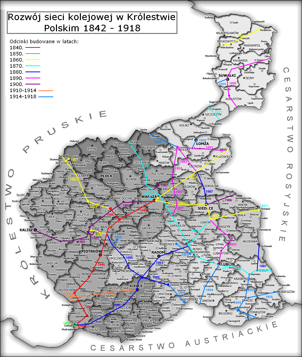 Development of railways in Congress Poland 1842-1918